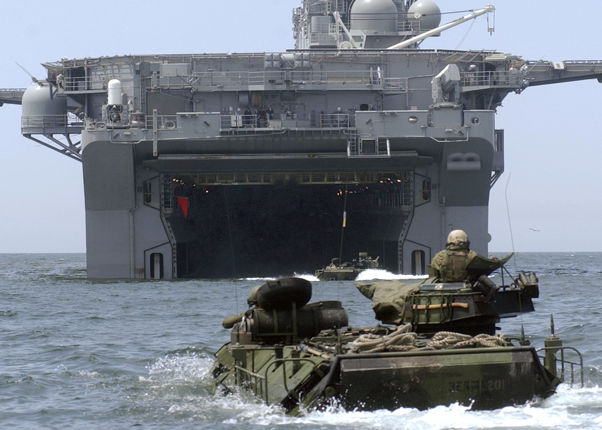 040426-N-1352S-039 Pacific Ocean - Amphibious Assault Vehicles assigned to the 3rd Amphibious Assault Battalion, Camp Pendleton, Calif., enter the well deck aboard the Wasp-class amphibious assault ship USS Bonhomme Richard (LHD 6). Bonhomme Richard is at sea conducting Amphibious Specialty Training while undergoing a Tailored Ship's Training Assessment (TSTA), in preparation for their upcoming deployment.